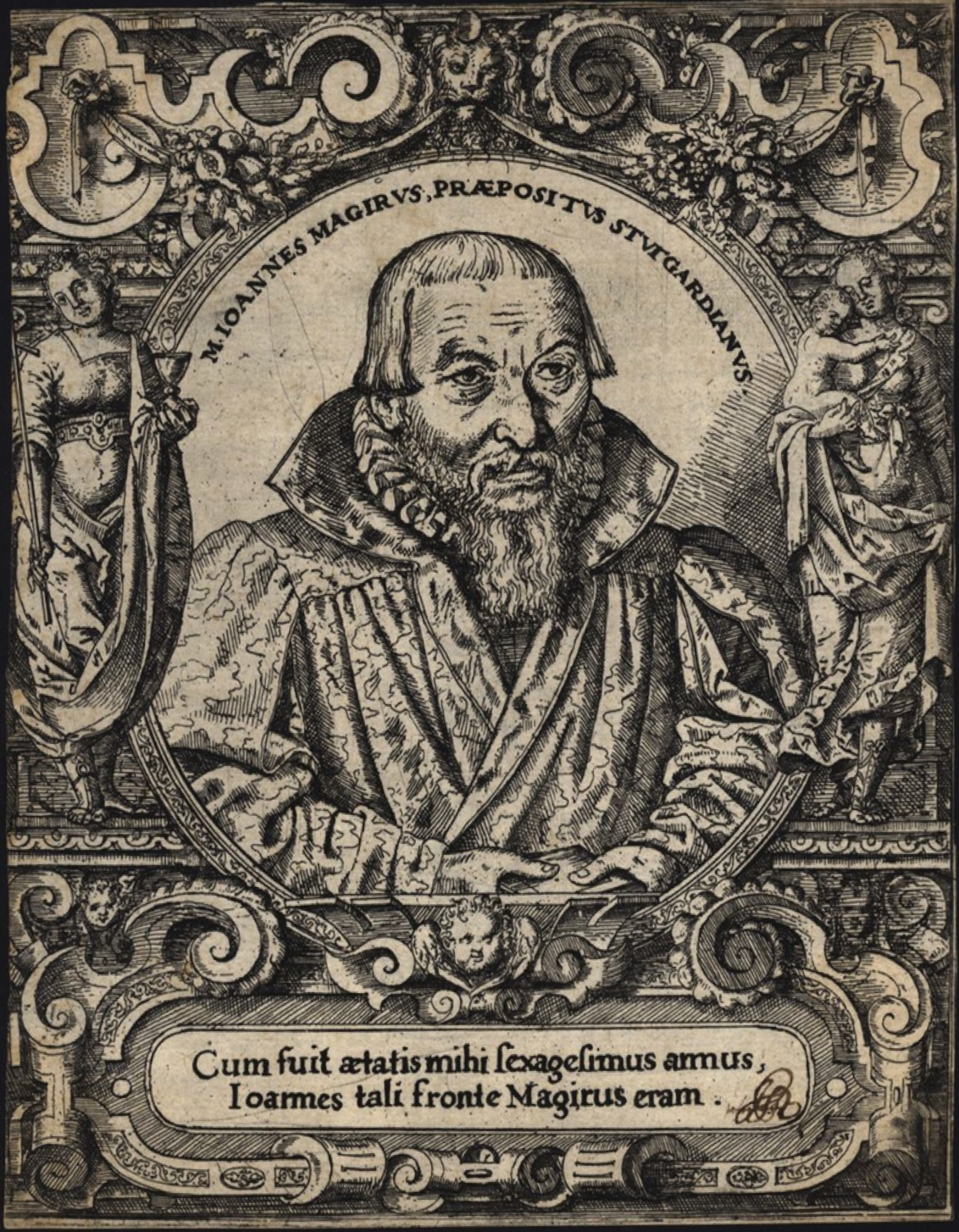 An engraving of Johannes Magirus (c. 1560 – 1596), German physician and natural philosopher.